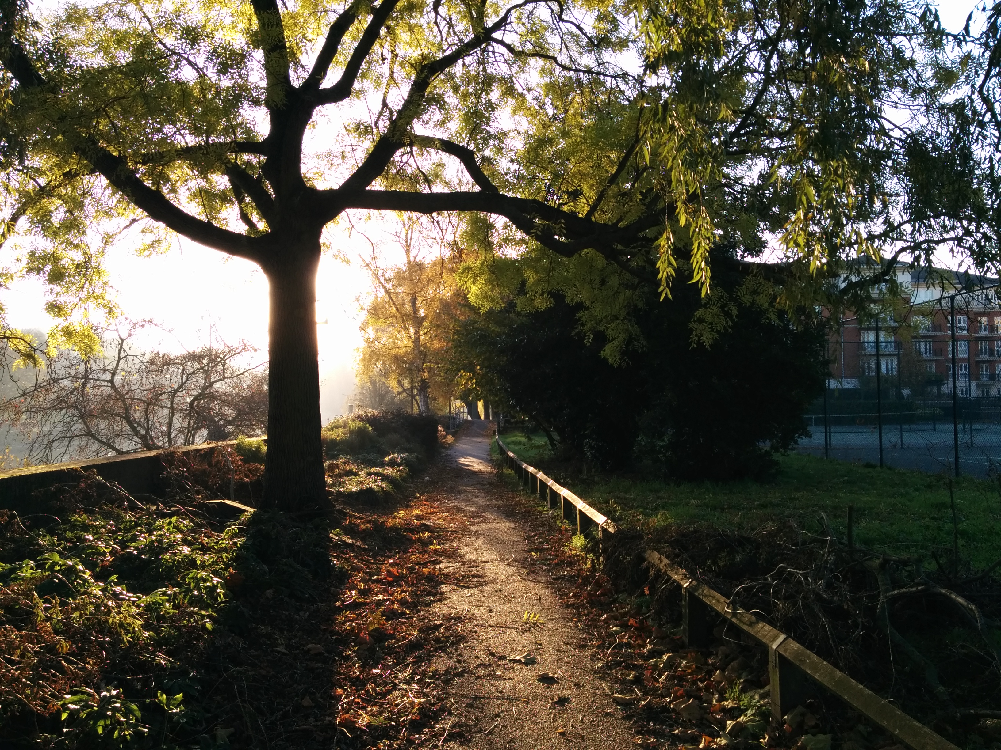 Footpath and tree shadow in Richmond, Surrey - UK